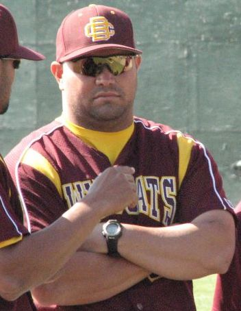 Bethune-Cookman Wildcats coaches at Marty L. Miller Field in Norfolk, Virginia at the MEAC Tournament in 2007.